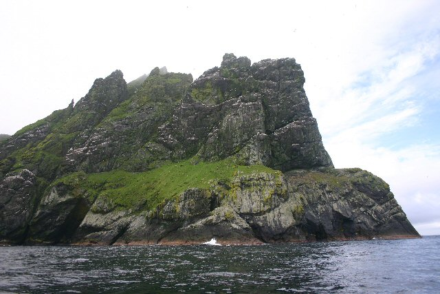 Gearr Geodha, the NE tip of Boreray in the St Kilda group of islands.